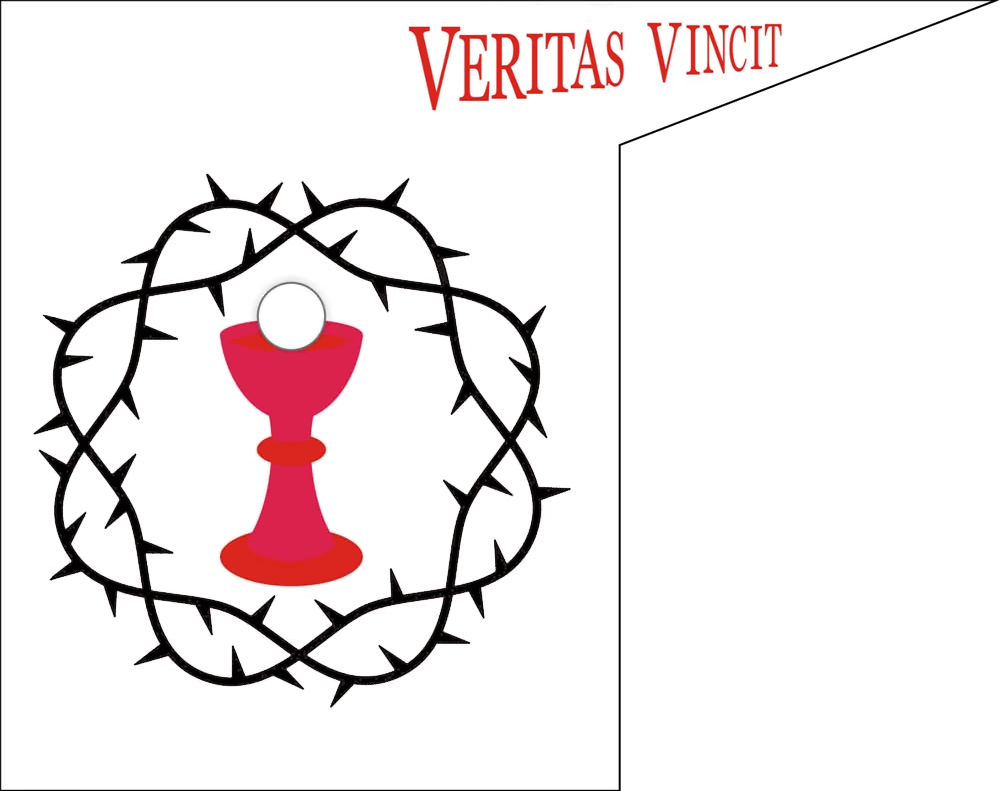 Rectagular version of the standard of bohemian hussite faction from 15th century – the Taborites (Czech: Táborité or Táboři)